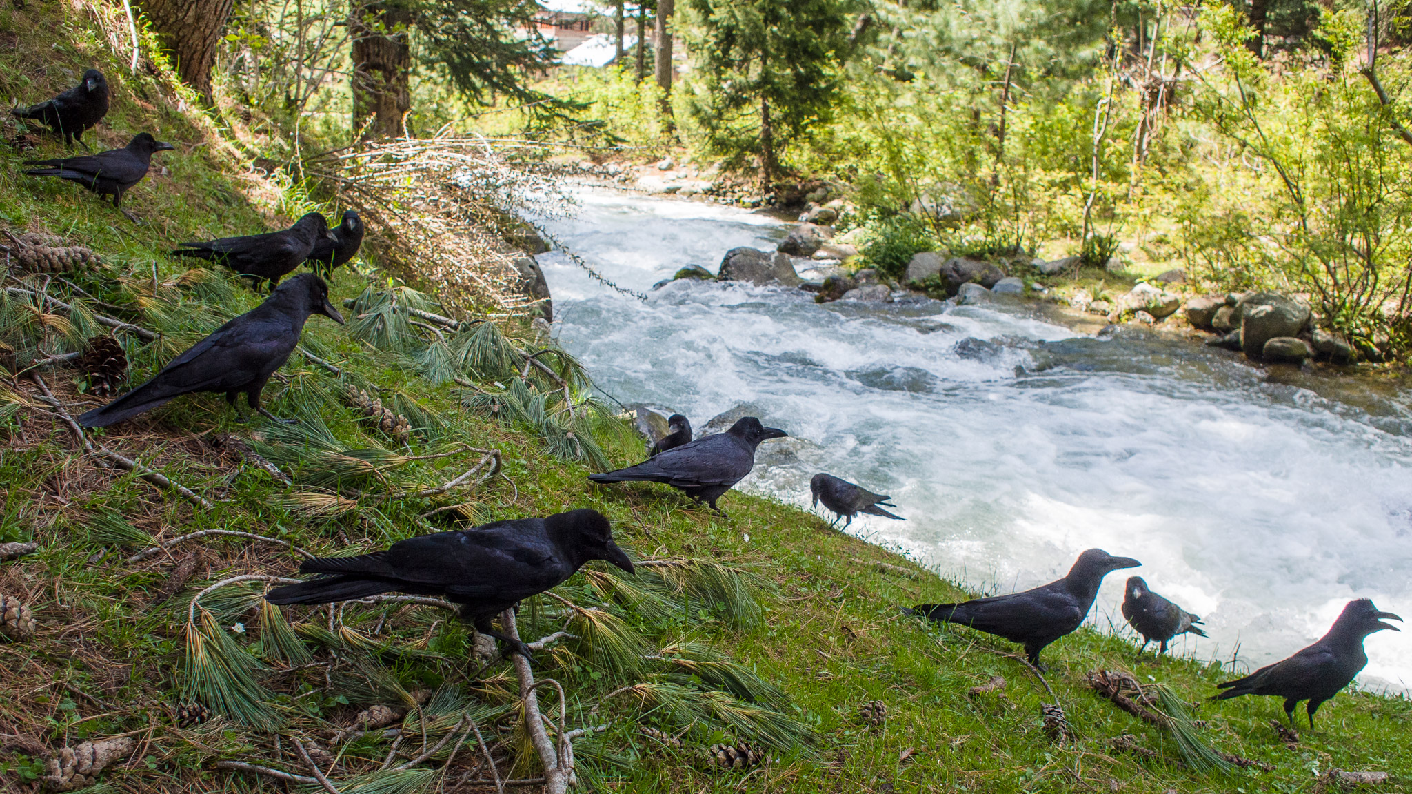 Large-billed Crows